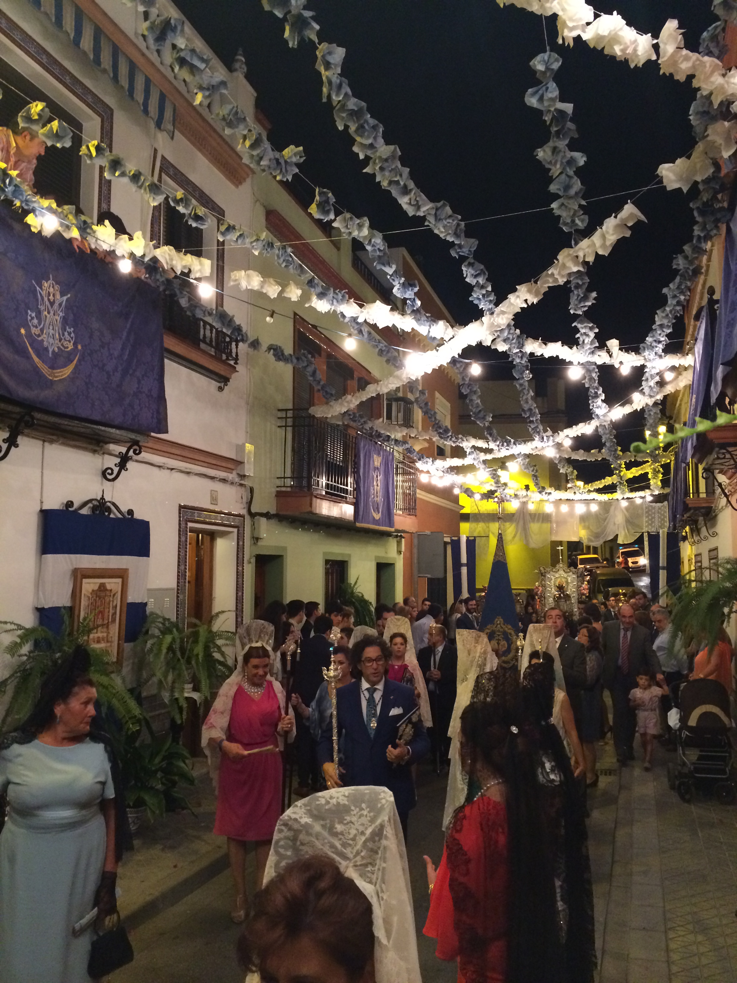 rosario